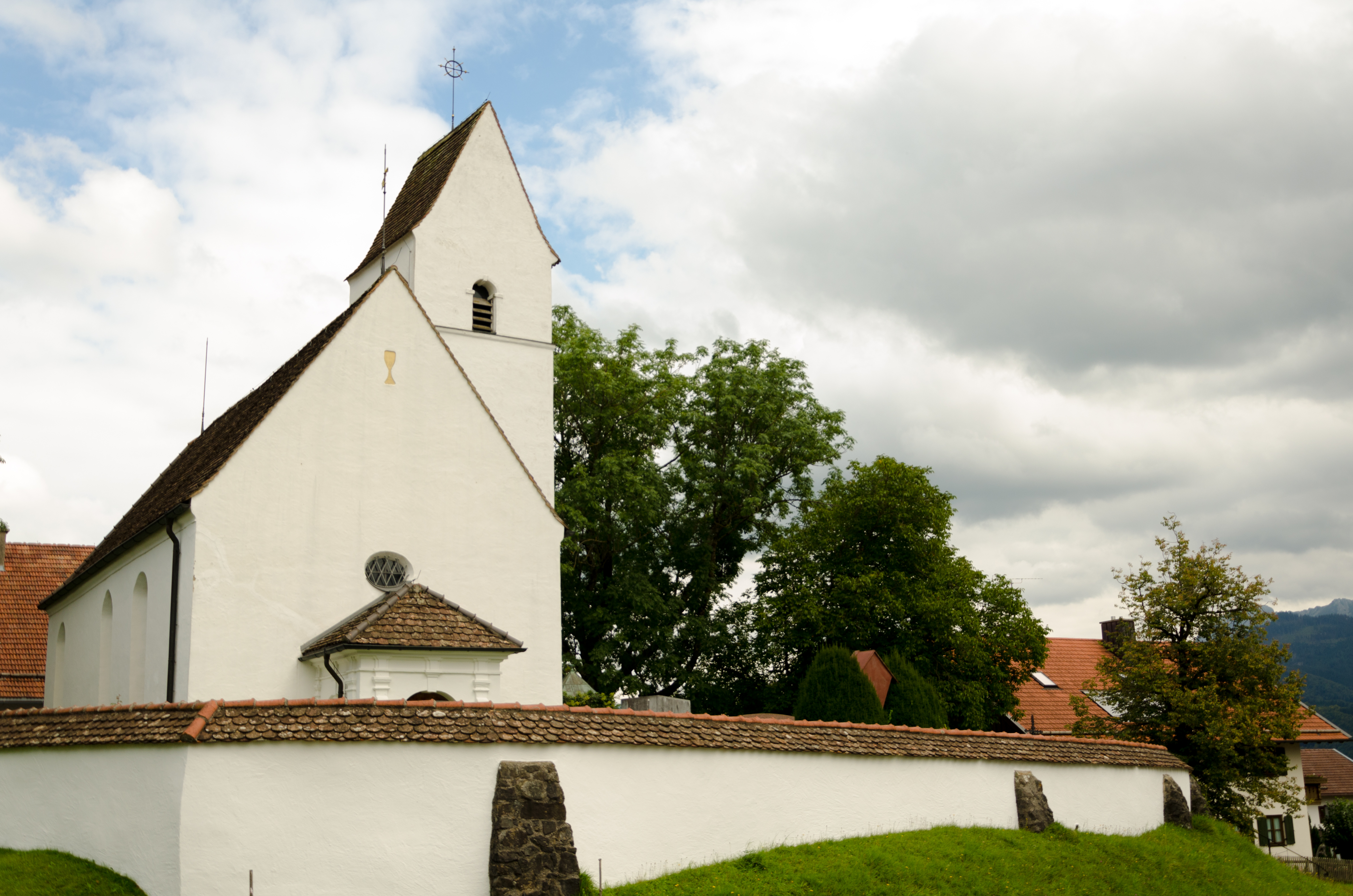 This is a photograph of an architectural monument.